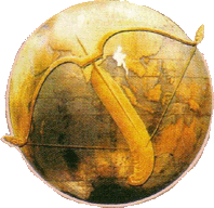 Ministry of Foreign Affairs sealမြန်မာဘာသာ: နိုင်ငံရေးဝန်ကြီးဌာန တံဆိပ်